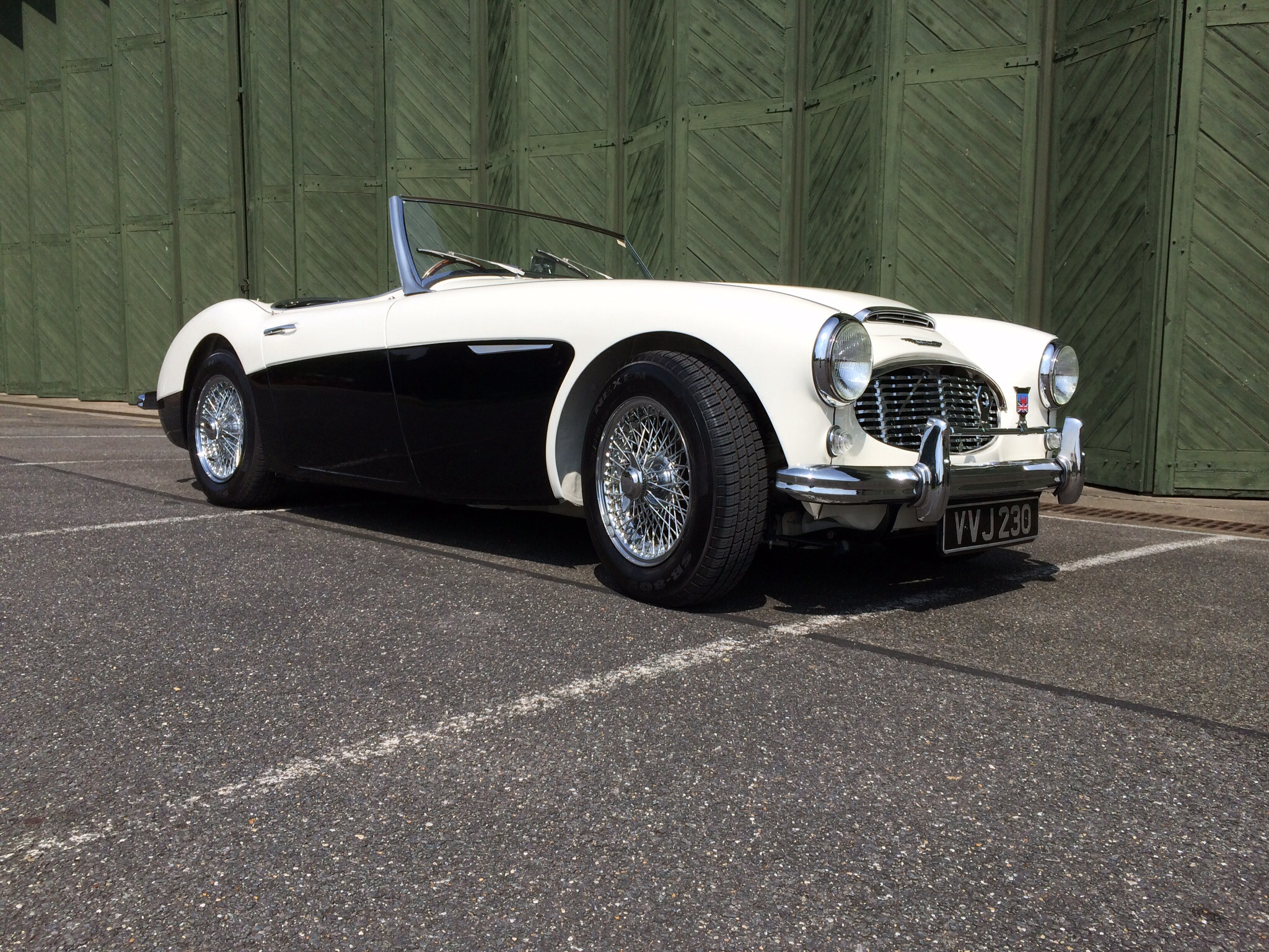 Duxford Spring Car Show 2014 1959 BN7